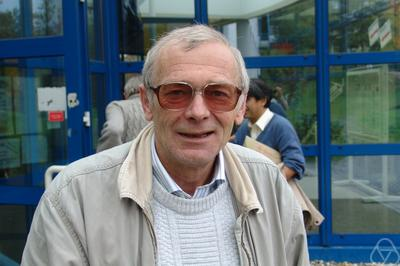 mathematician